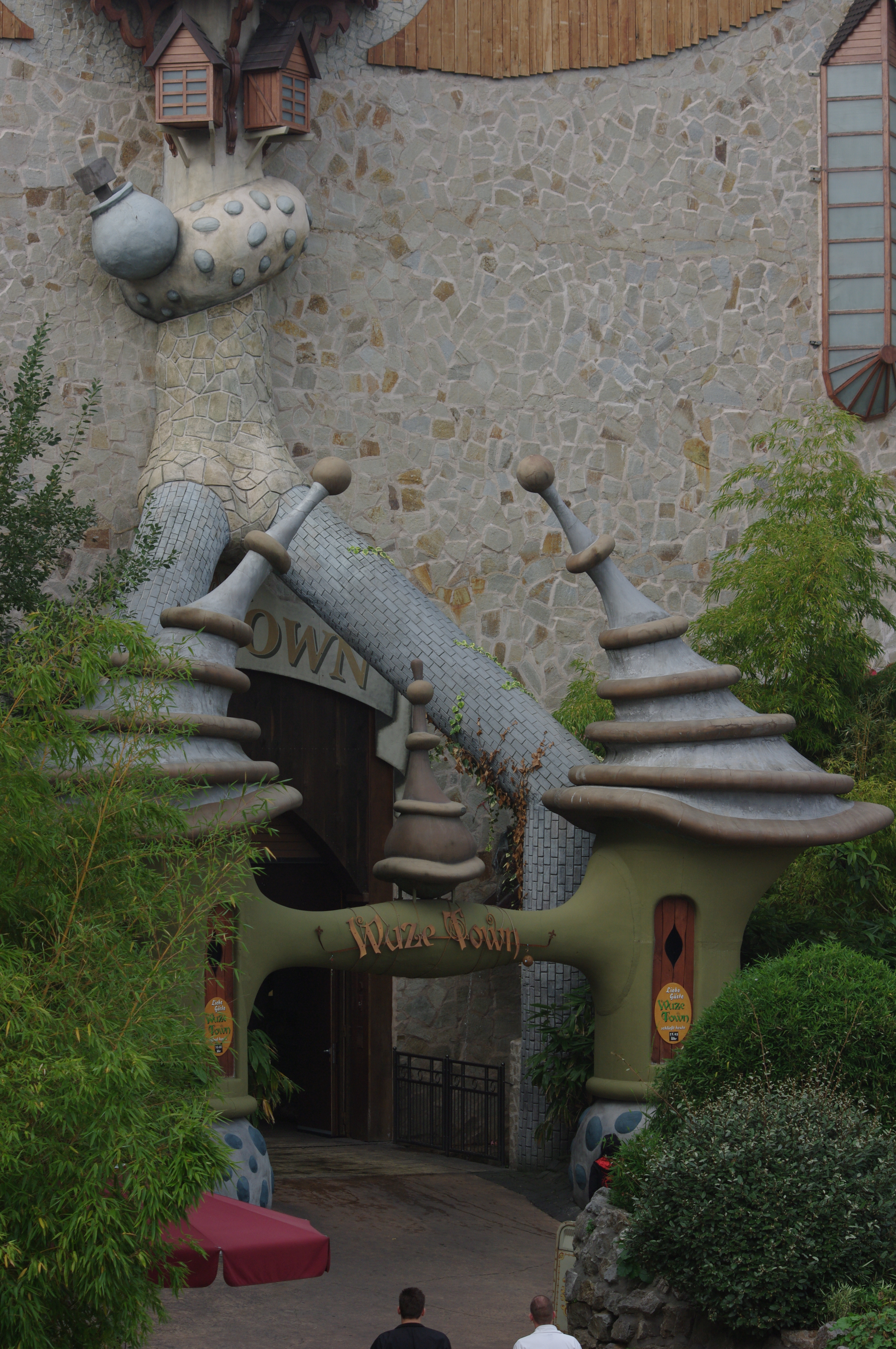 The entrace of 'Wuze Town' in the 'Fantasy Realm', which is part of Phantasialand